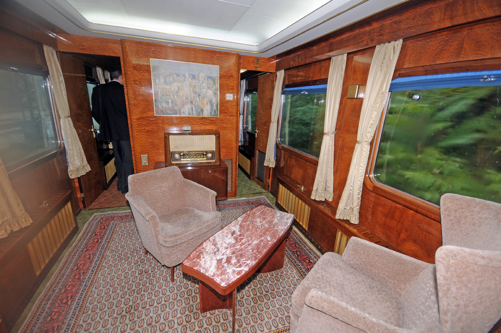 Living room in Blue Train, Marshall Tito's residence on wheels